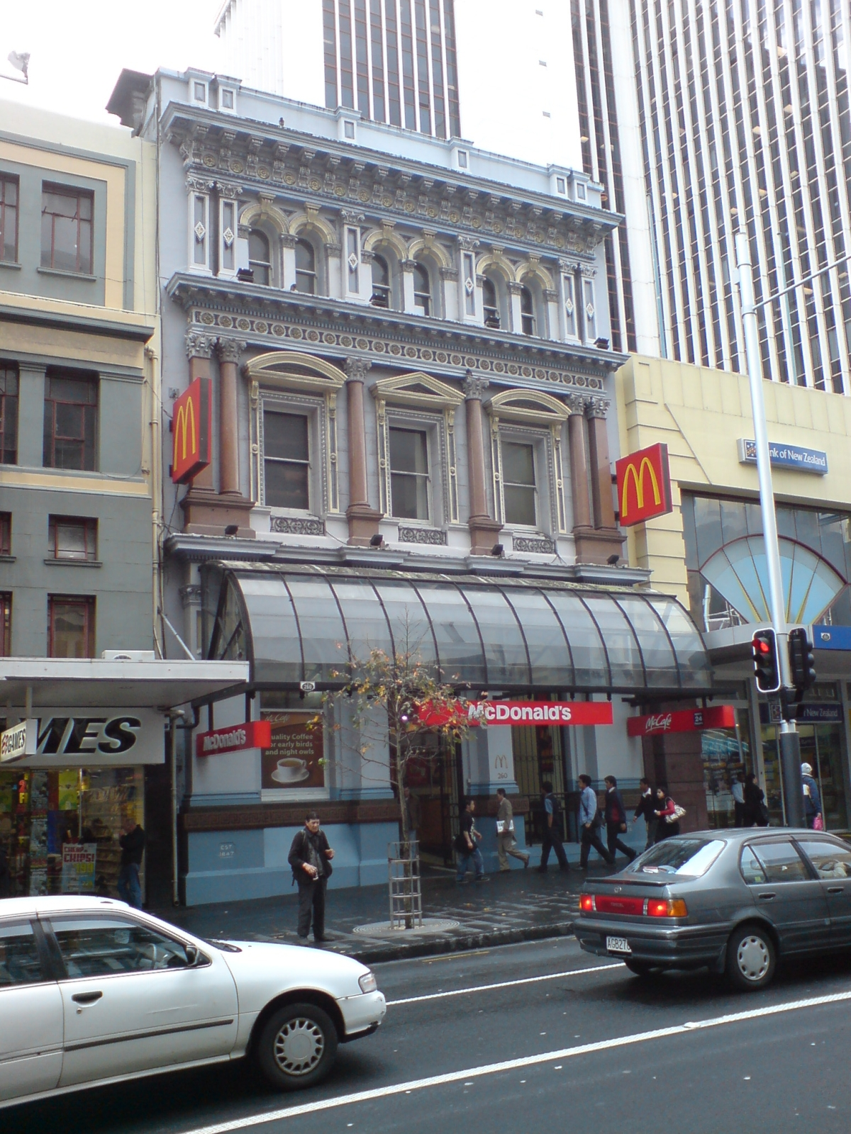 The facade of the Auckland Savings Bank Building in the Auckland CBD, New Zealand. Now containing a McDonalds, though apparently, some bank elements like the safe are still in use (in this case as a stockroom). New Zealand Historic Places Trust Register number: 4473